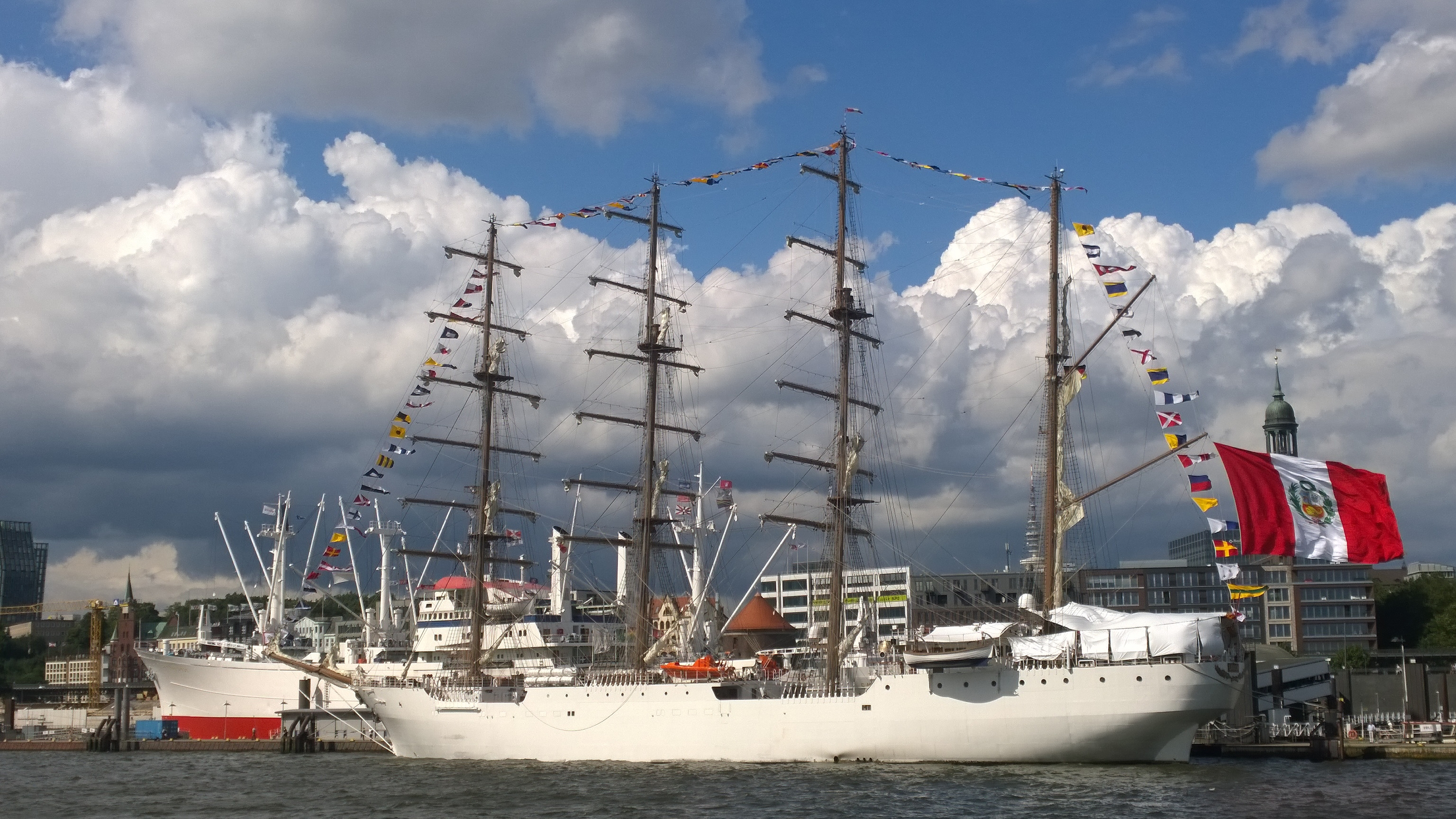 The sailing school ship B.A.B. Union of the Peruvian Navy in Hamburg